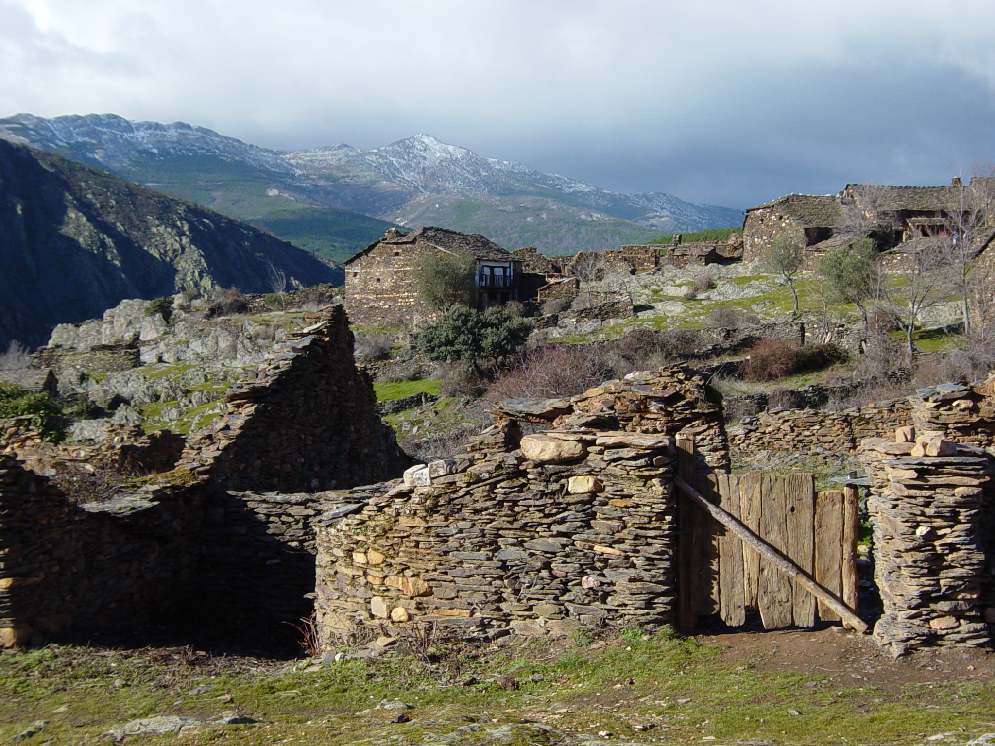 Surrounded of slate in Ayllón mountains, province of Guadalajara, Spain.